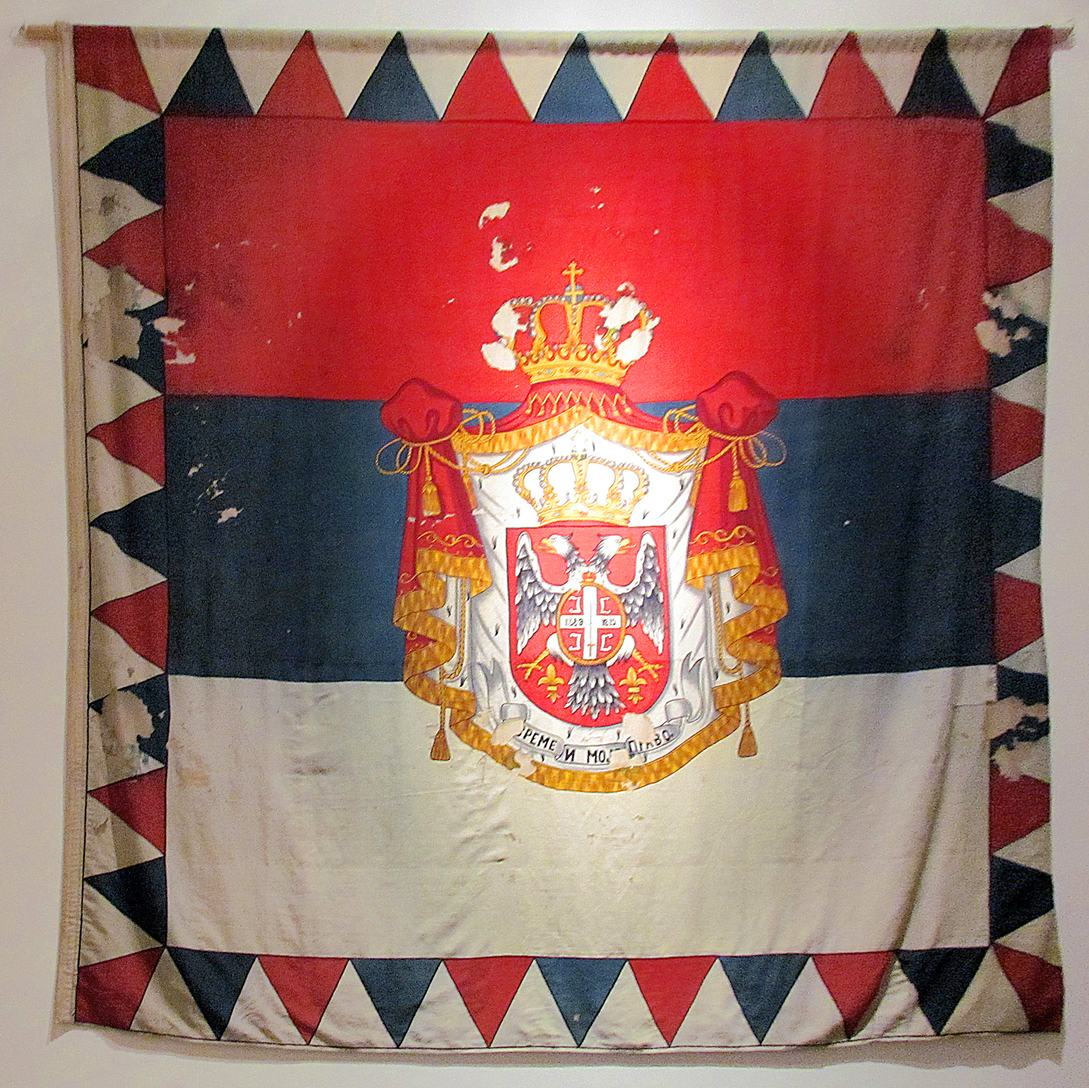 Standard of Milan Obrenovic king of Serbia, Historical Museum of Serbia